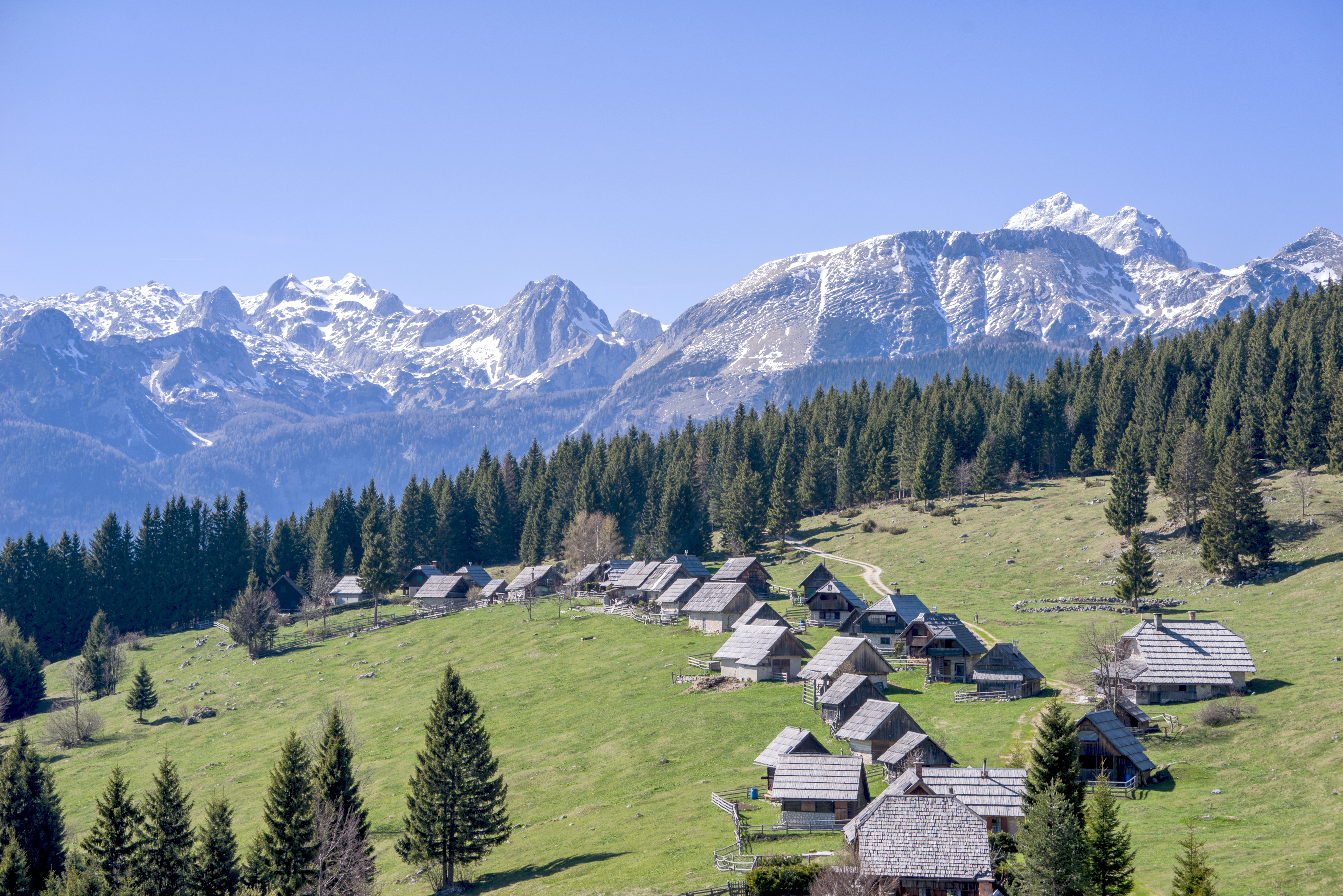 Pokljuka.